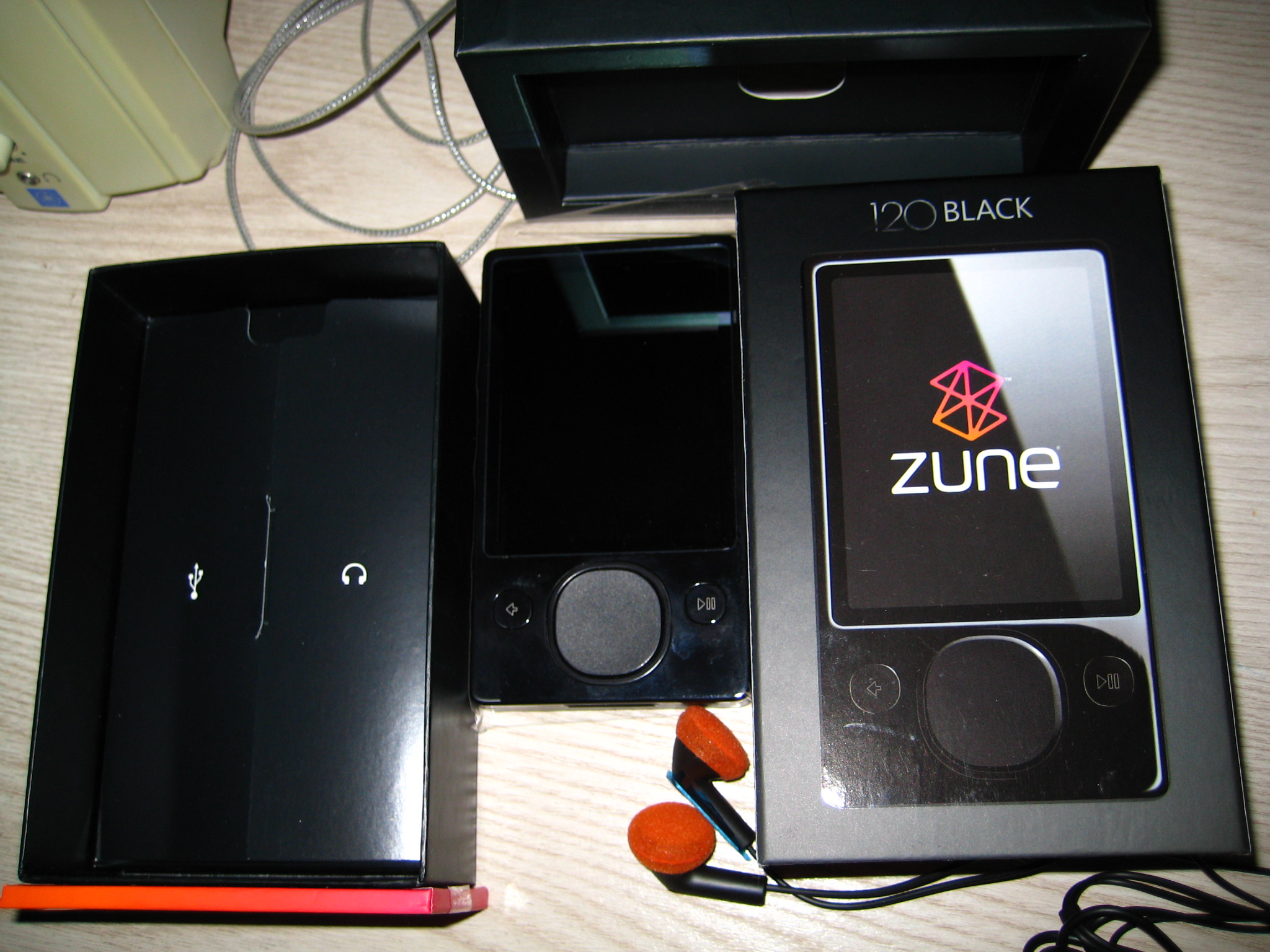 Zune 120 gb accessories